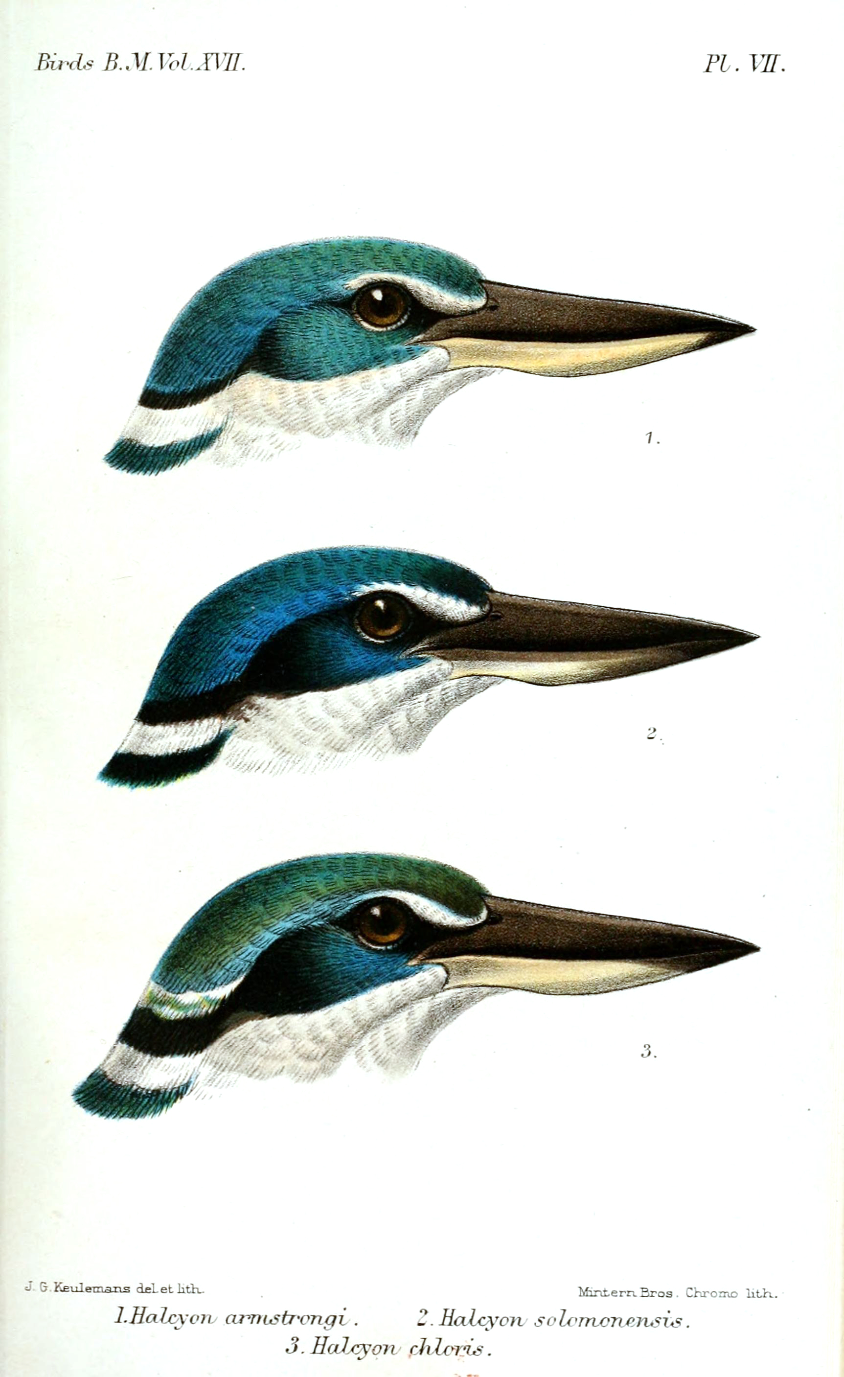 Subspecies of Todiramphus chloris, Collared Kingfisher; Halcyon armstrongi = T. c. armstrongi (top); Halcyon solomonensis = T. c. solomonis (centre); Halcyon chloris = T. c. chloris (bottom)